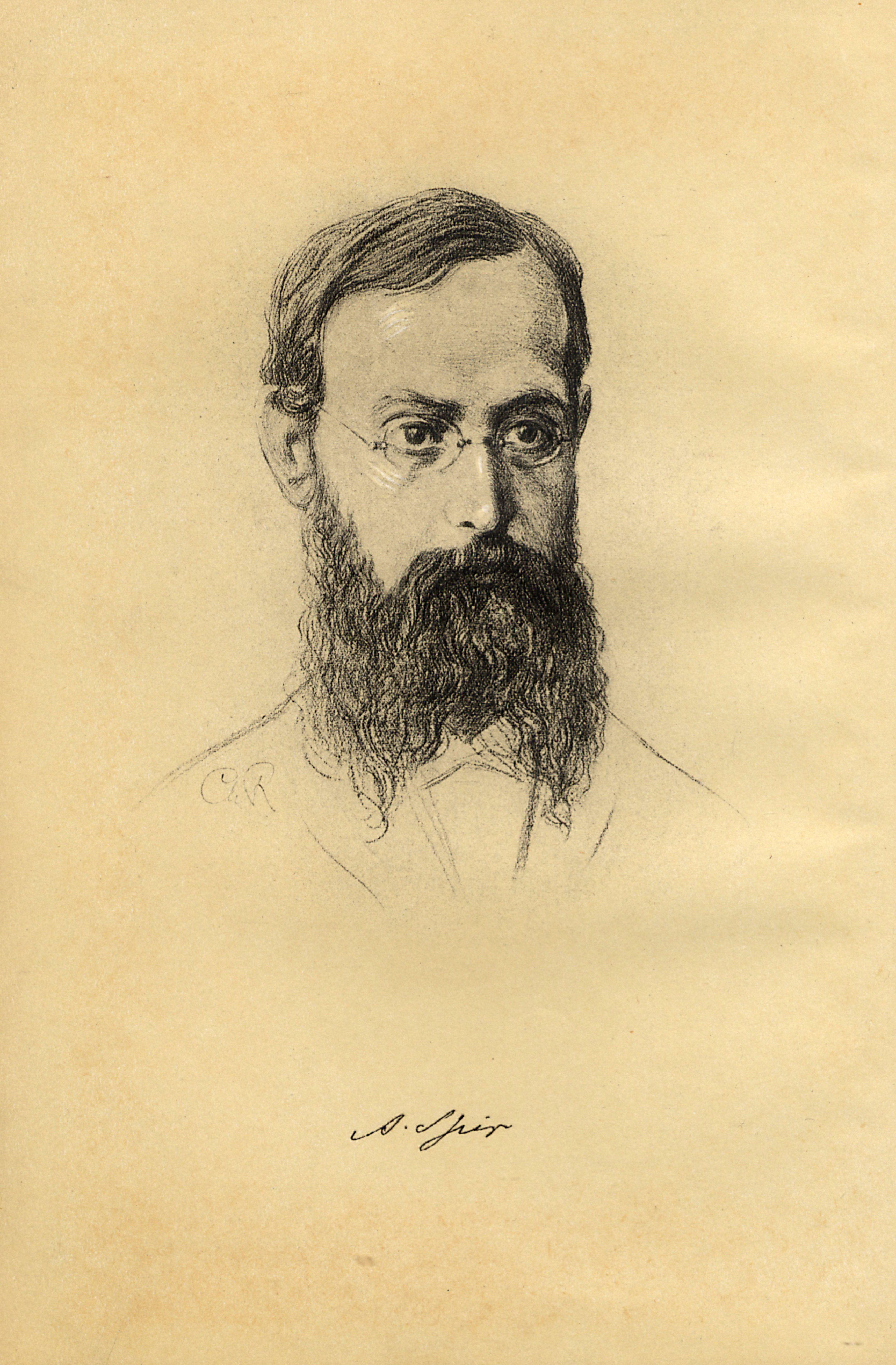 African Spir